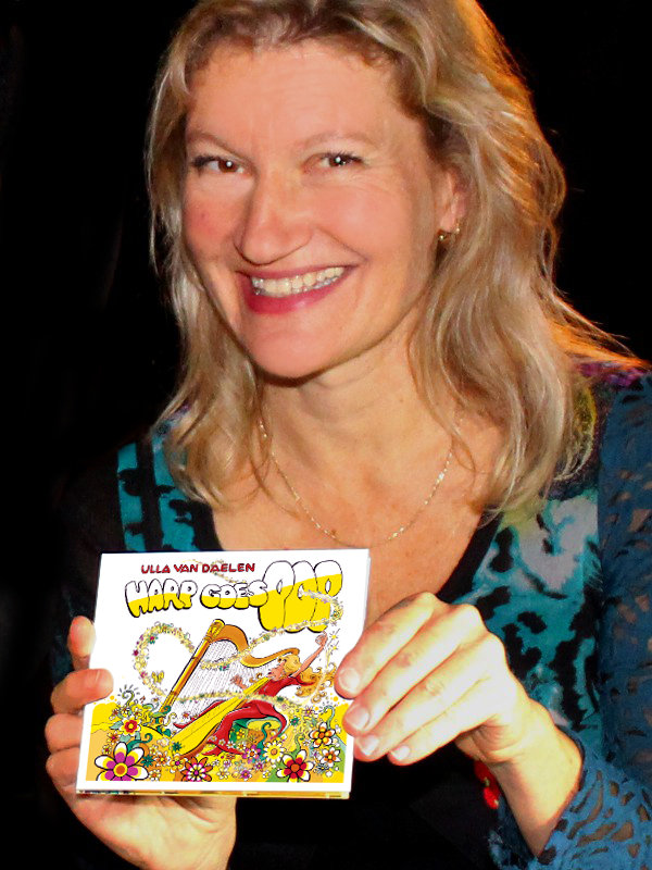 Ulla van Daelen with her on 9 December published Album in Grefrath, Germany (image detail)